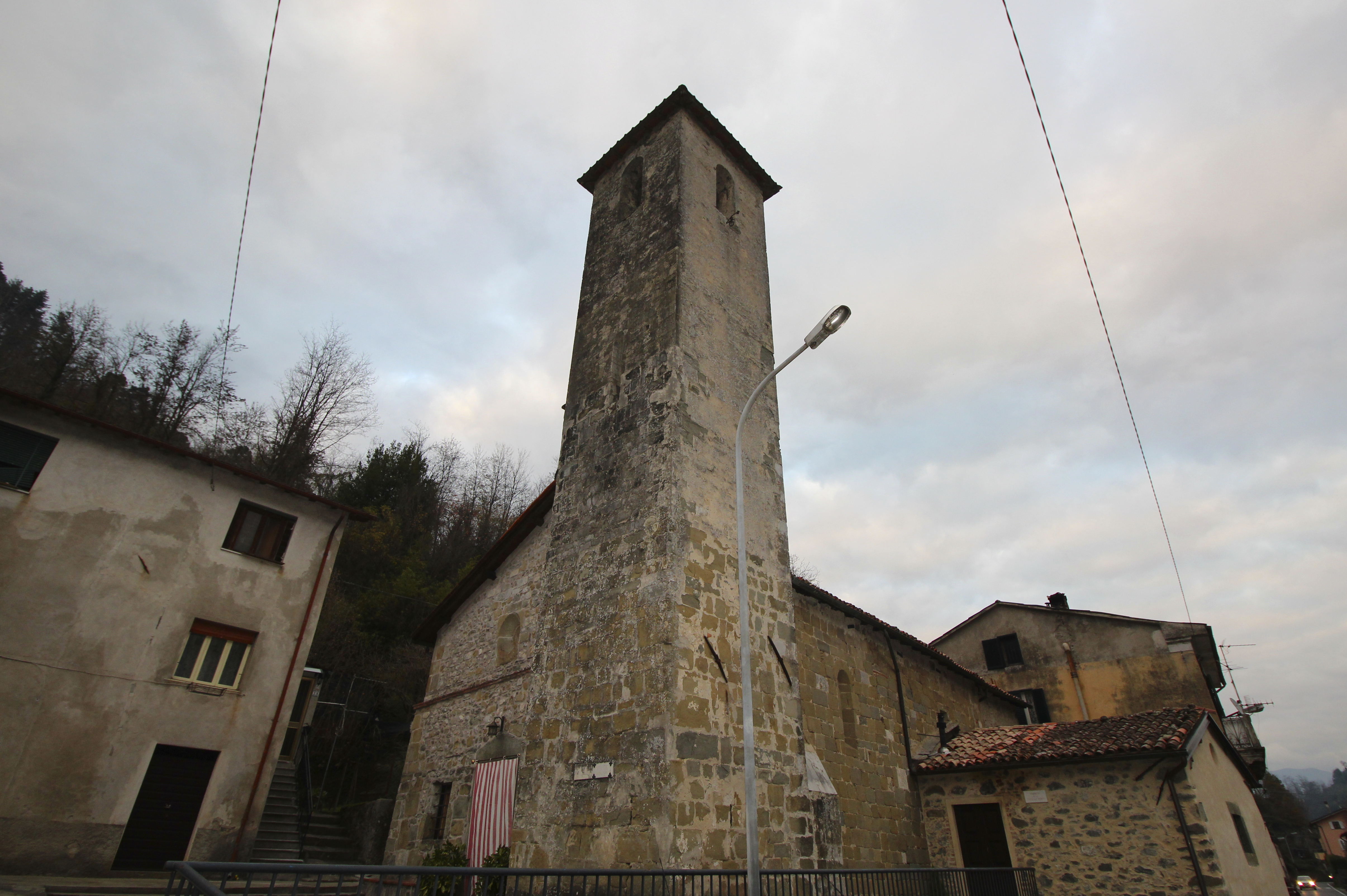 Church Sant'Andrea, Gallicano, Garfagnana, Province of Lucca, Tuscany, Italy